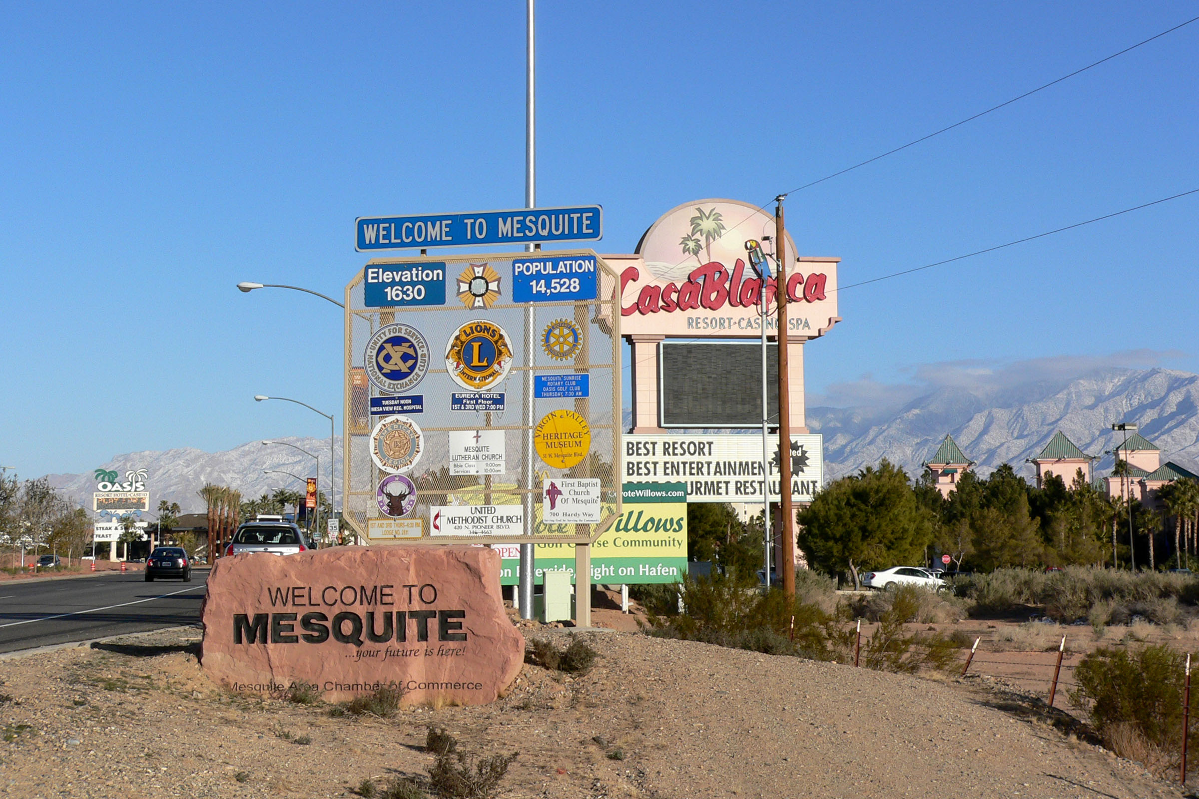 City signs, Mesquite, Nevada